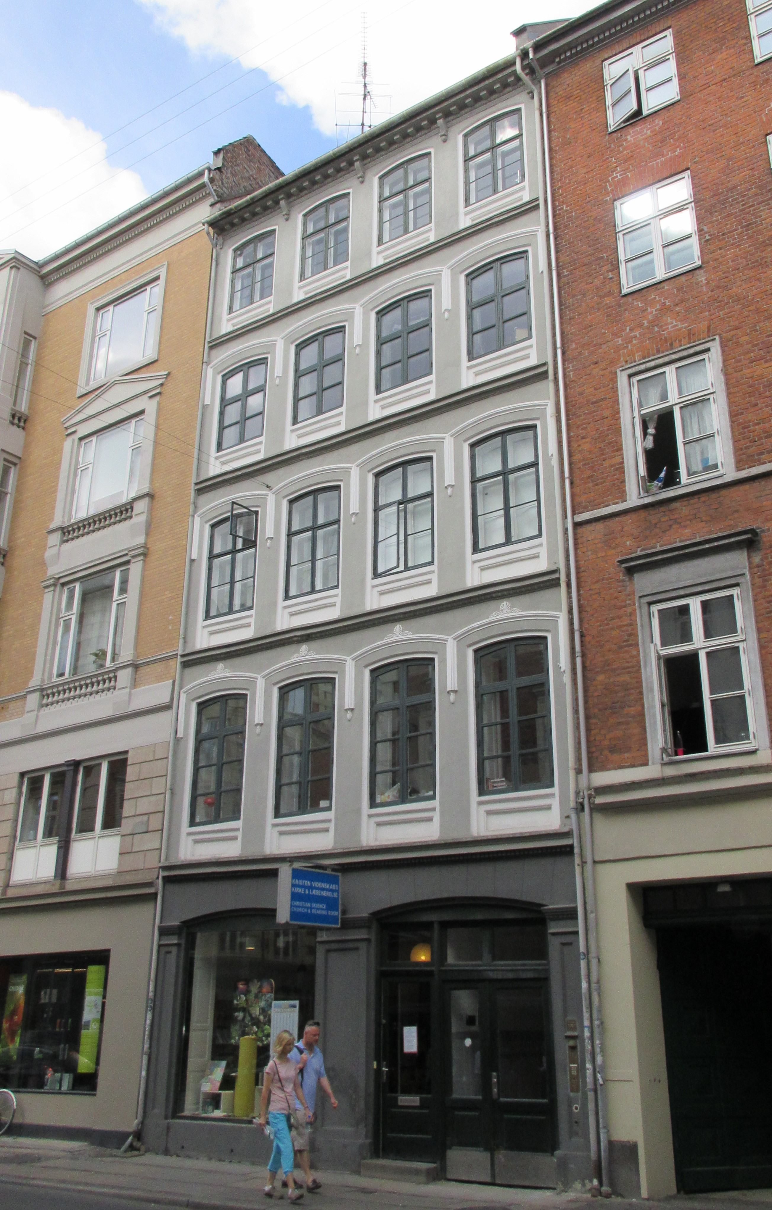 Bernhard Hertz Sølvvarefabrik at Store Kongensgade 23 in Copenhagen, Denmark